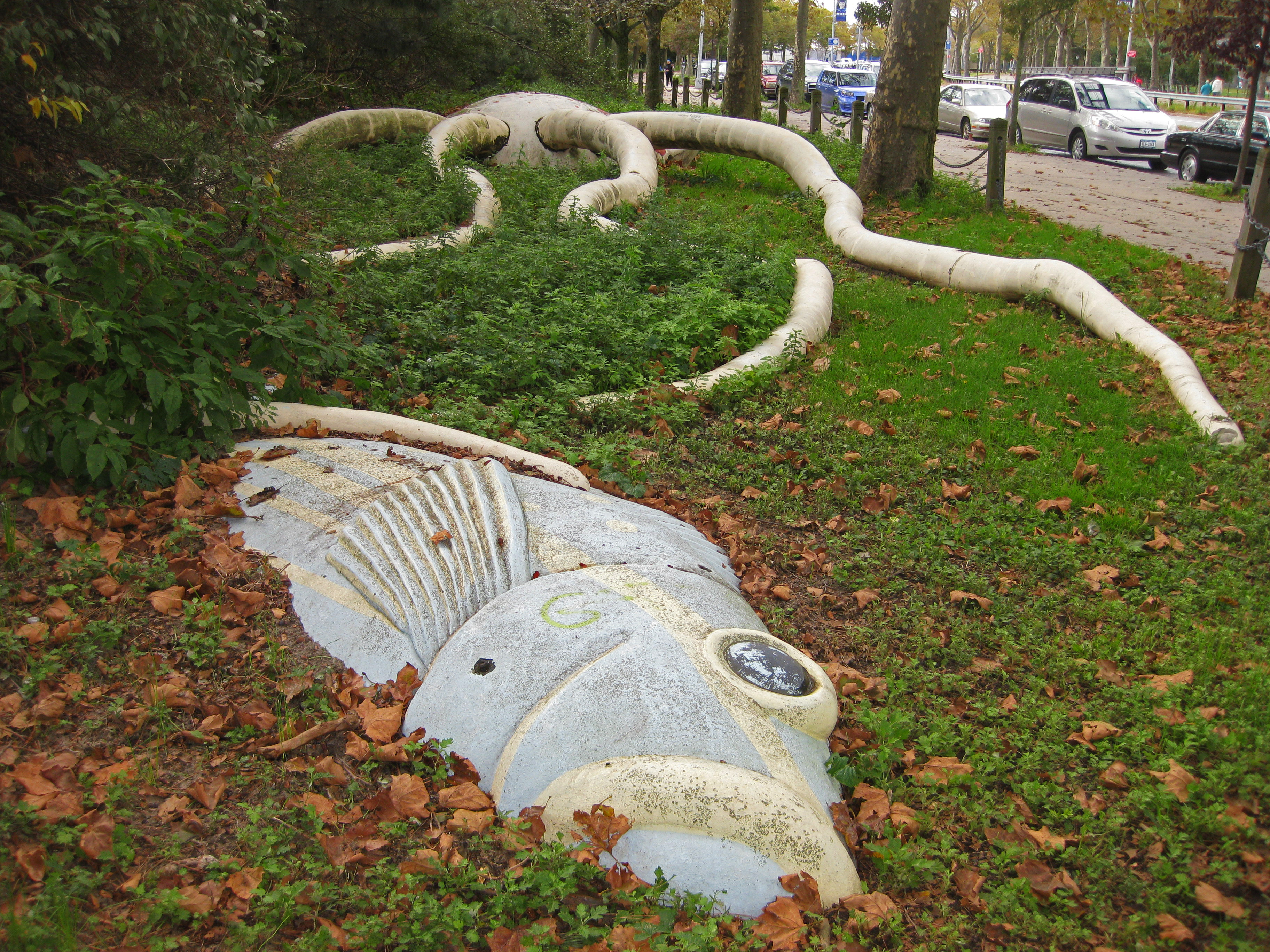 Coney Island, New York